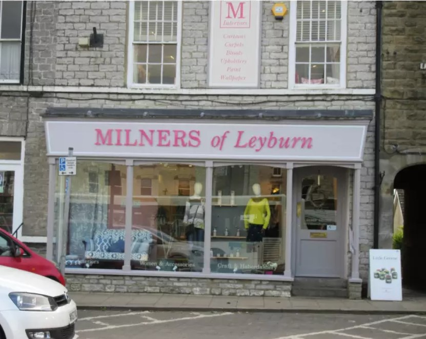 Milners Shop Front 2020 Leyburn, North Yorkshire